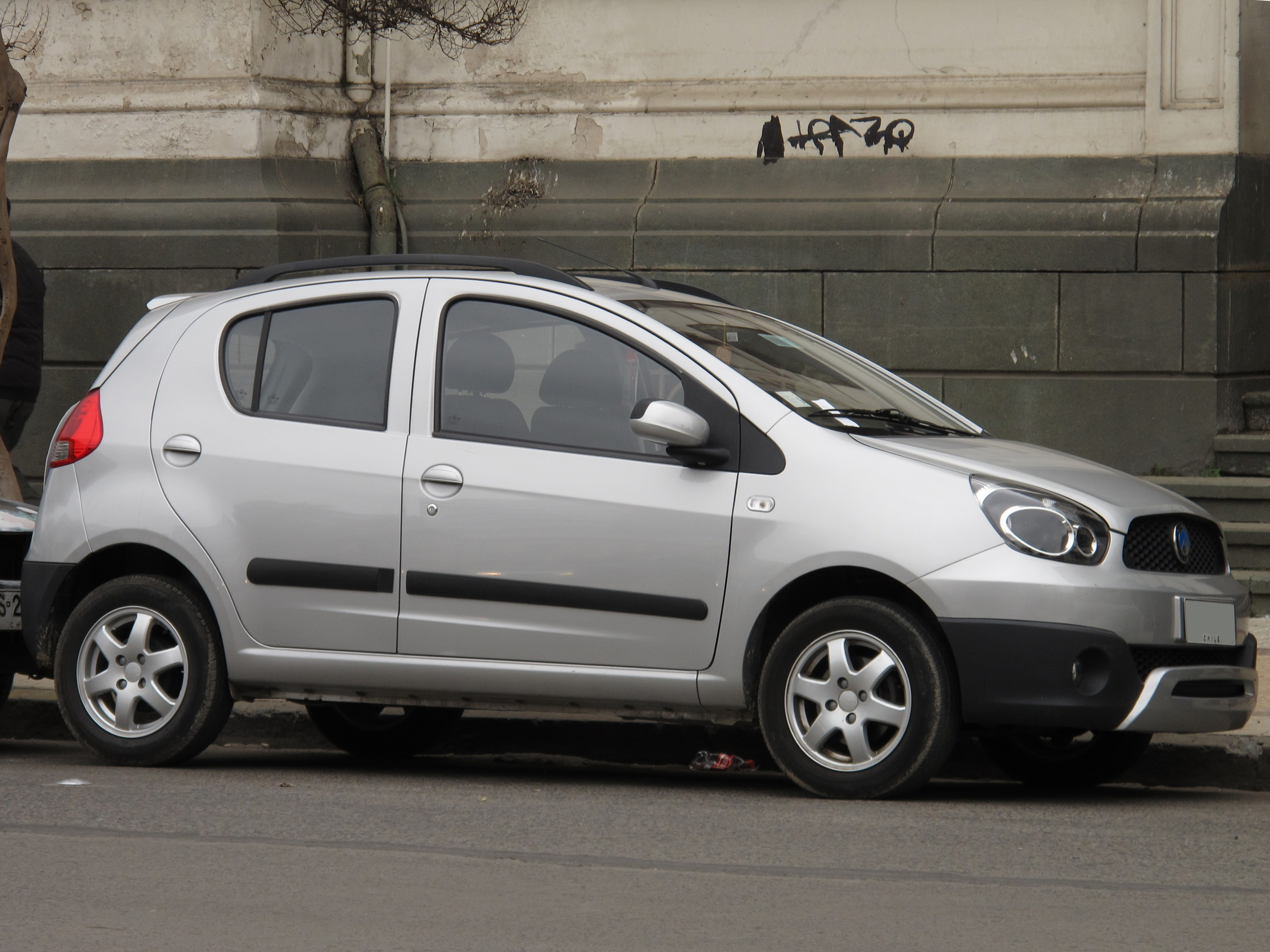 Geely LC Cross 1.3 GL 2014